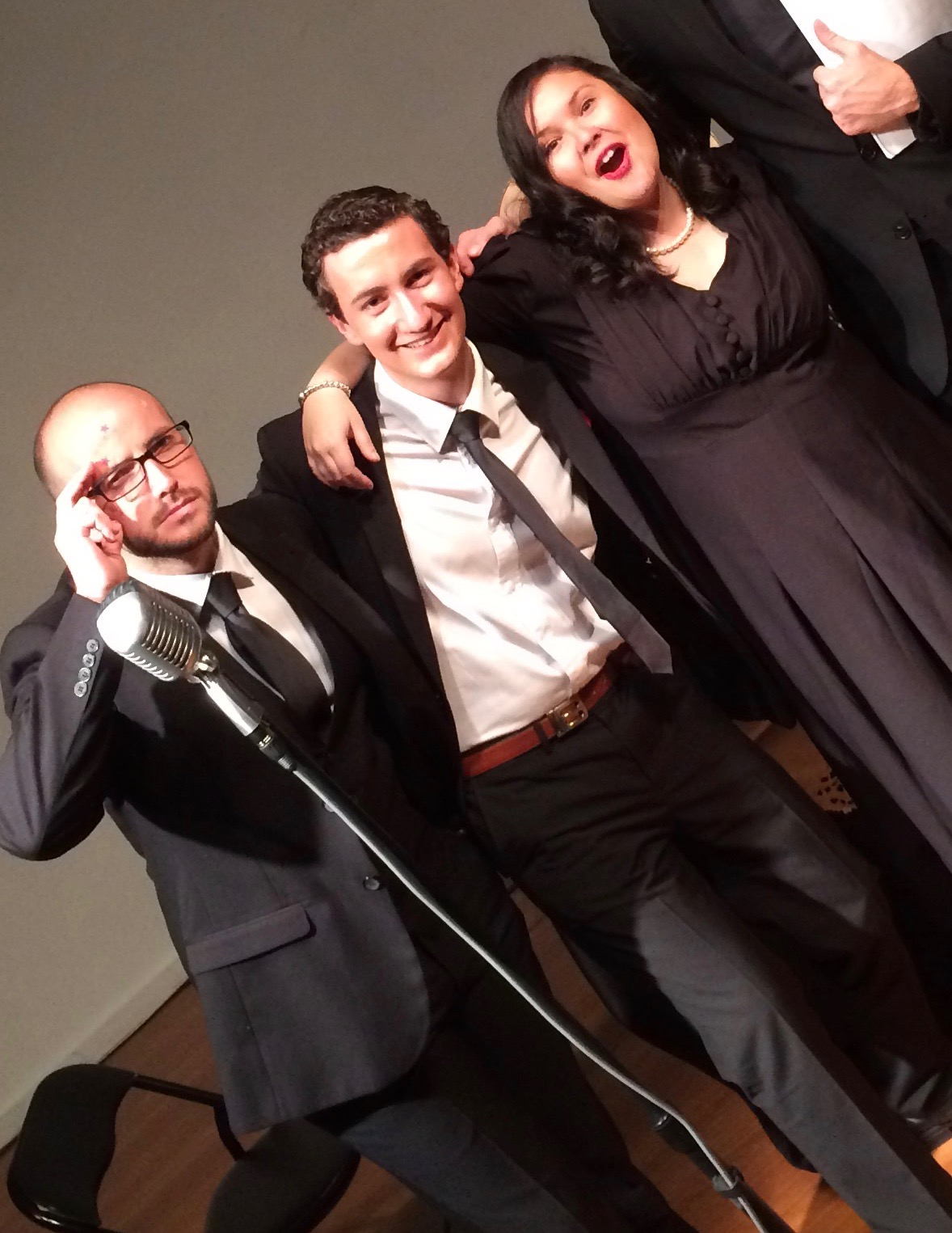 Benjamin Maio Mackay (centre), Eden Trebilco (left), Jennifer Barry (right) at the Great Detectives of Old Time Radio Live Press Call in Sydney.